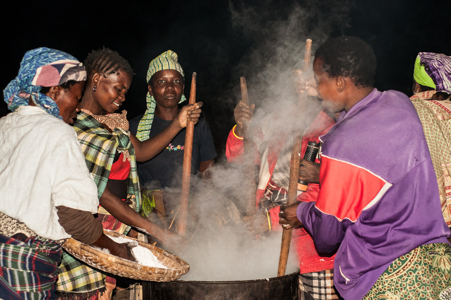 Yawo women gather to cook a LOT of ugali for a religious festival held in the cool time of the year - syala This is an image of food from Mozambique